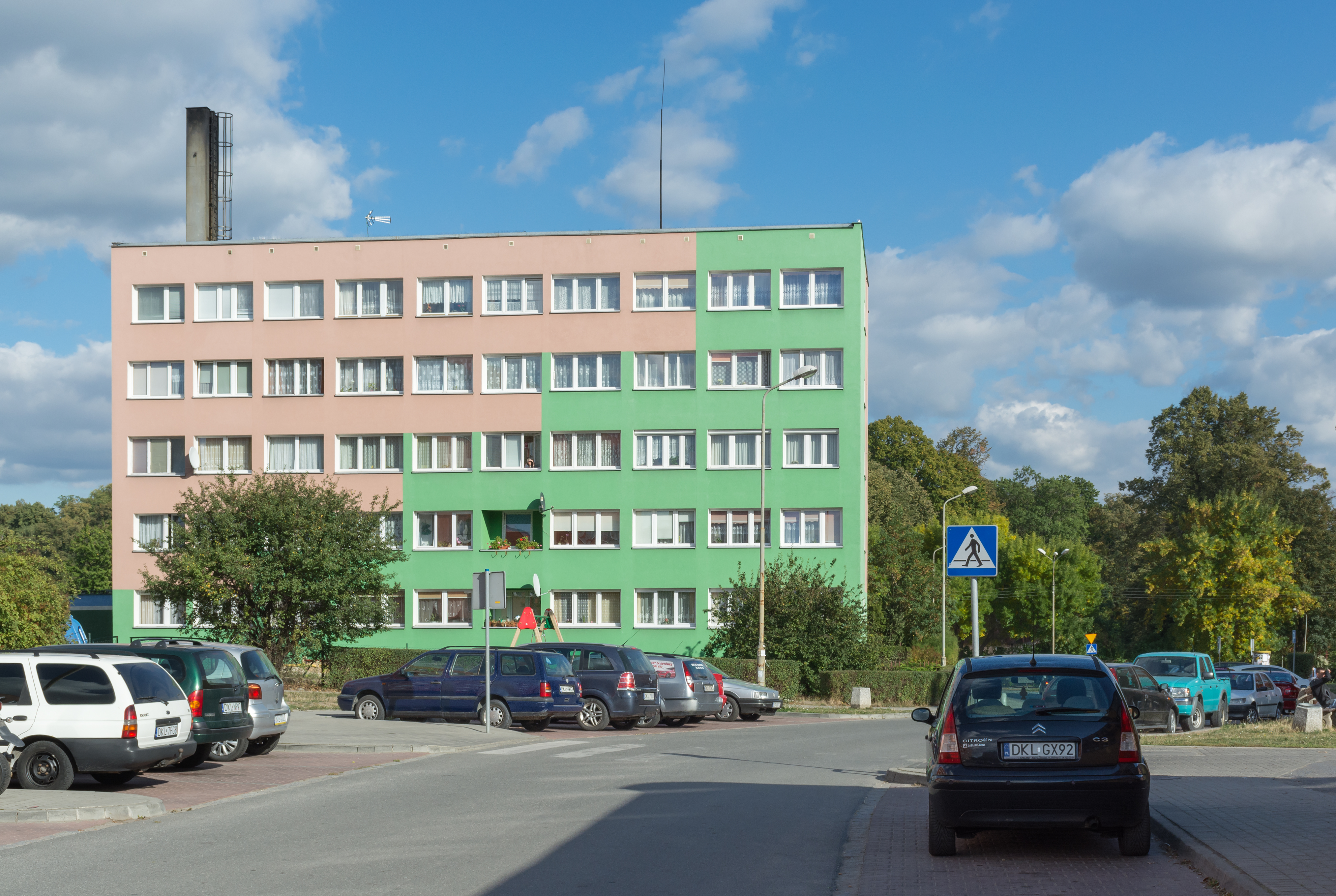 Św. Wojciecha Street in Kłodzko